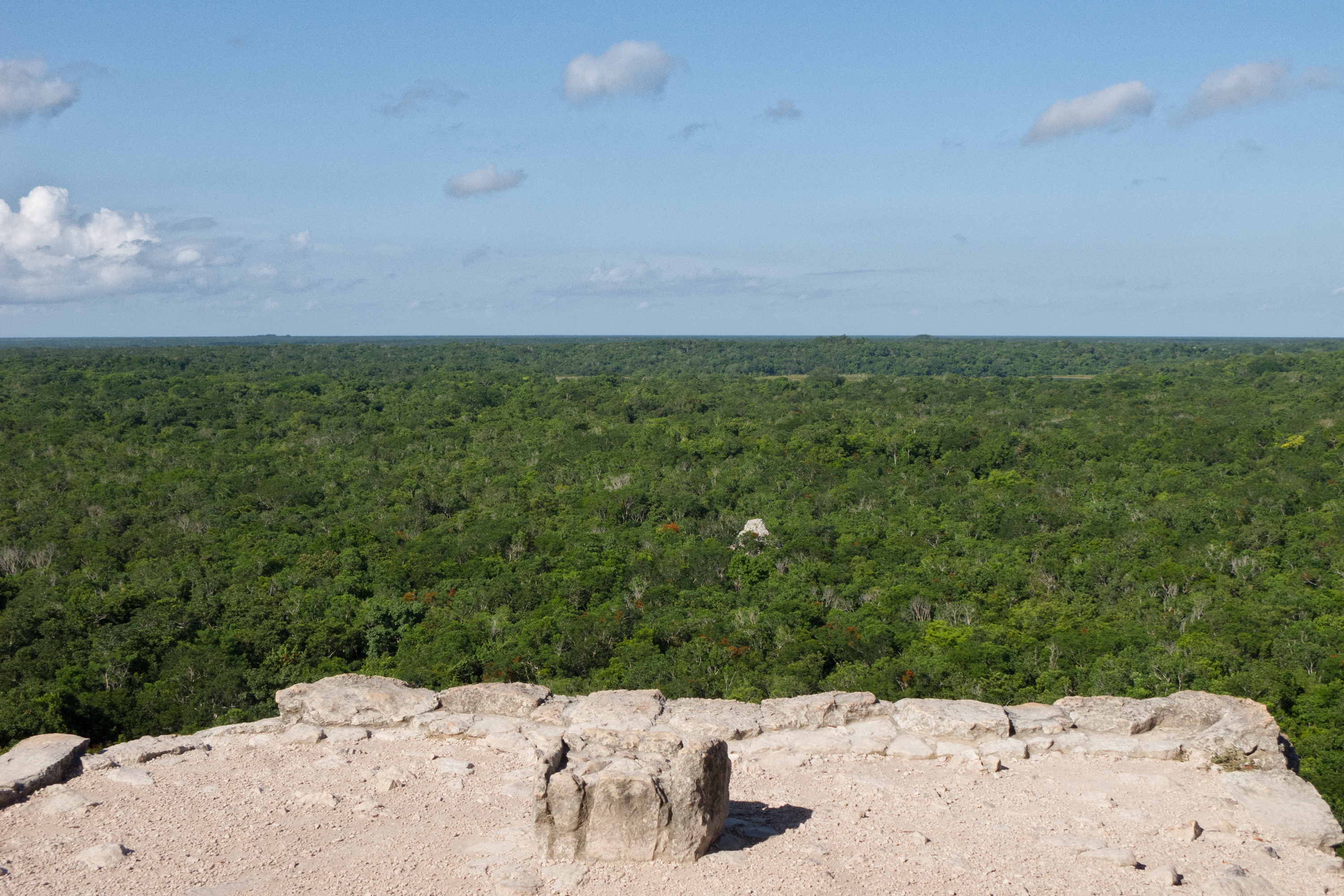 Cobá, Quintana Roo, Mexico.